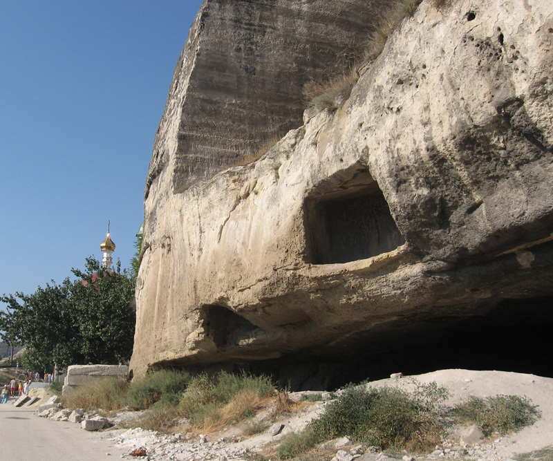 Caves of the monastery